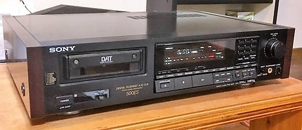 SONY DTC-500ES / Digital Audio Tape recorder